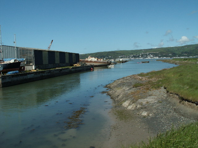 Mouth of the Leri and boatyard. Looking North towards Aberdyfi, where the Afon Leri meets the Dyfi, with the Leri Boatyard on the left.